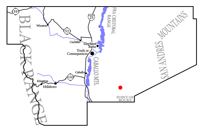 Simplistic map of Sierra County, New Mexico, including location of proposed spaceport.